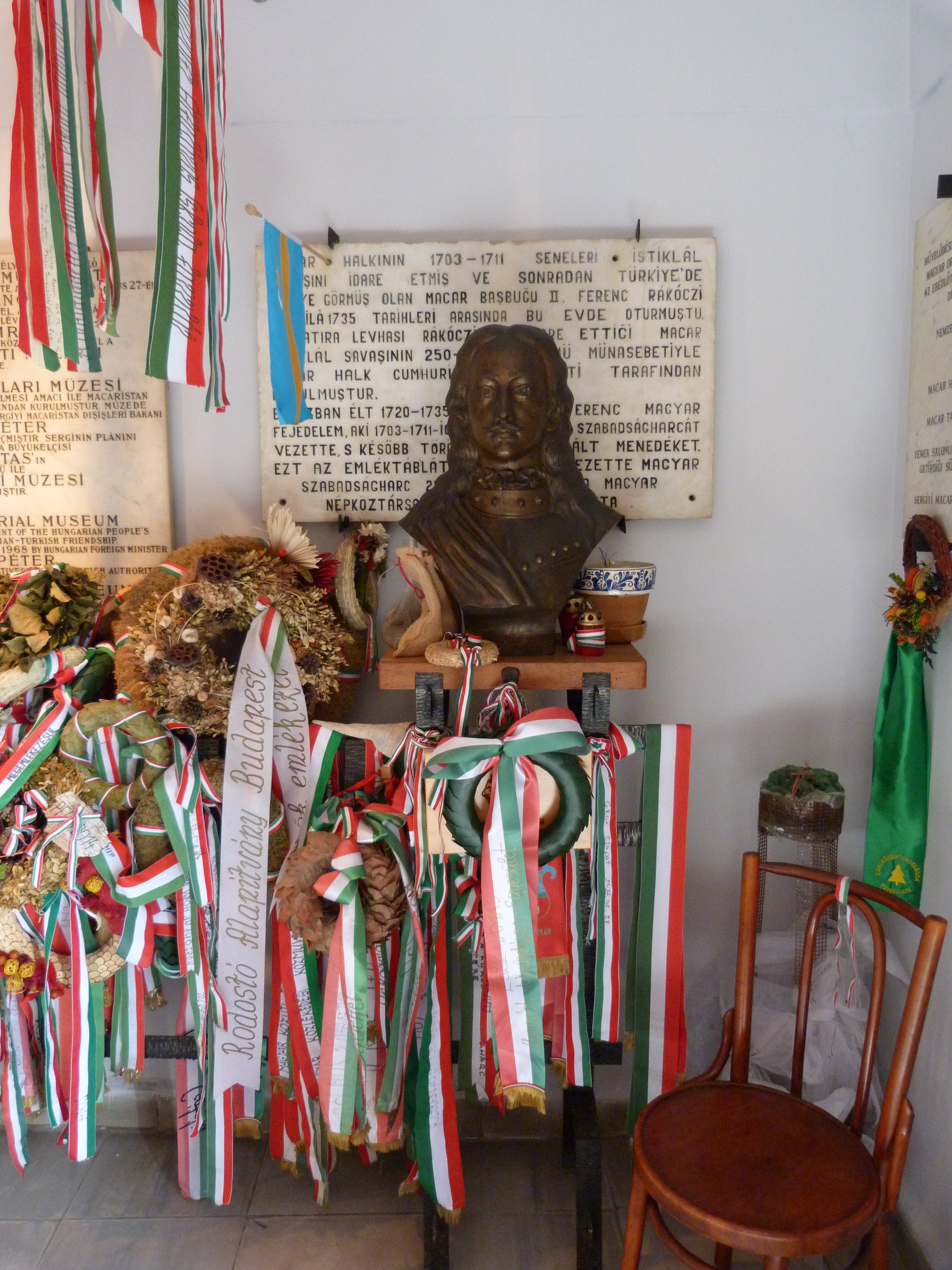 Live on the 25th of october, 2014. Rákóczi Museum, Tekirdağ, Turkey. ©© Derzsi Elekes Andor, Budapest, 2014, Published in the Metapolisz DVD line. You are authorised to use this vid under Creative Commons – even for commercial, for profit purposes. The vid must be attributed to Derzsi Elekes Andor. All of the photos and vids in the Metapolisz DVD line are under Creative Commons and can be used even for commercial – for profit – purposes. Recommended Citation Derzsi Elekes Andor: Metapolisz DVD line